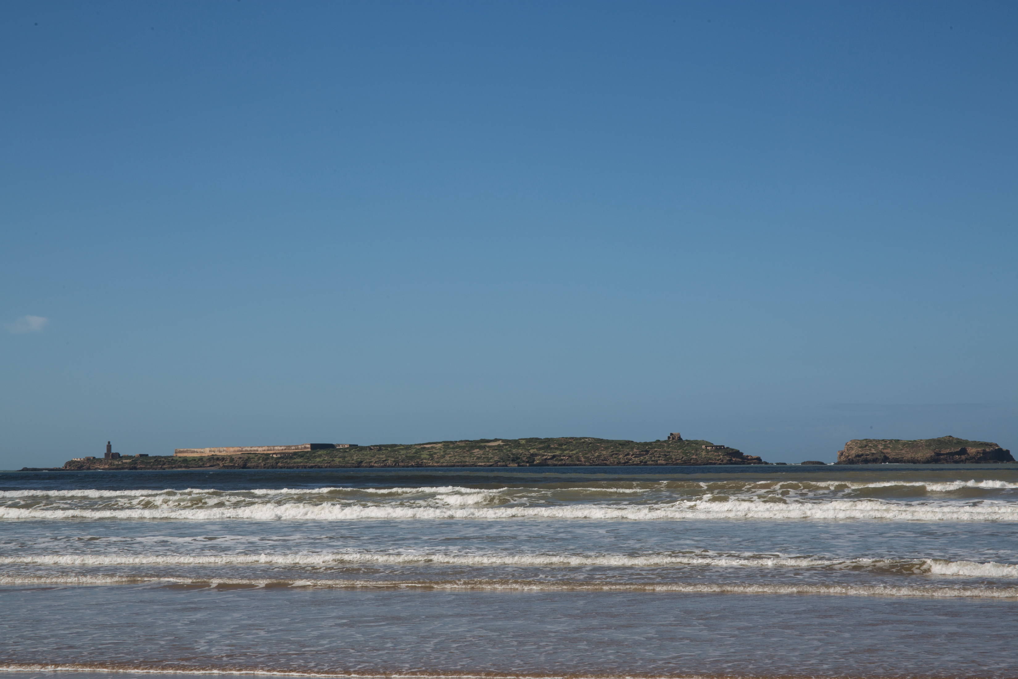 Mogador, the biggest island of the Iles purpuraires near Essaouira, Morocco